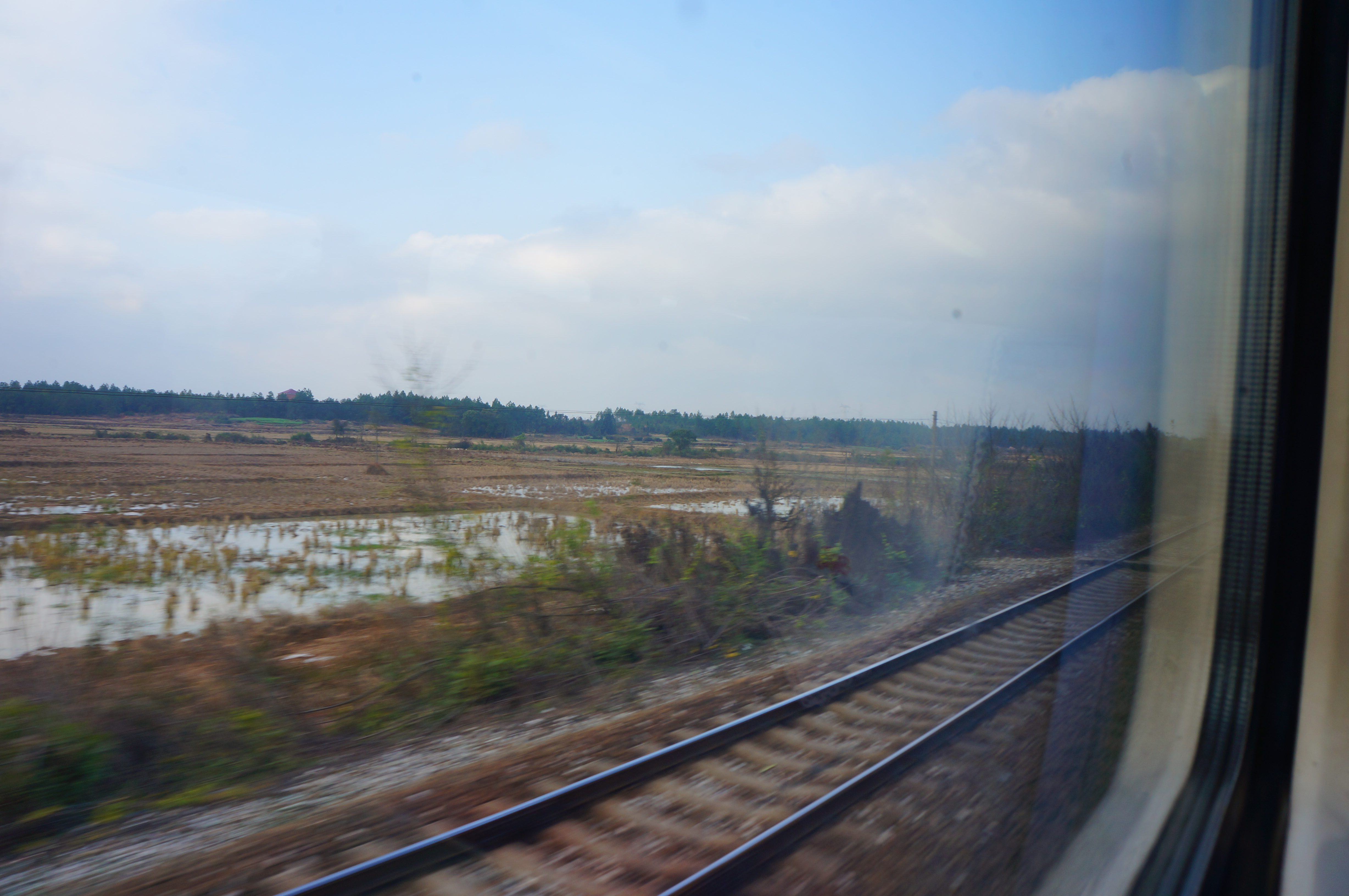 201612 Tracks at Zhongcun Station